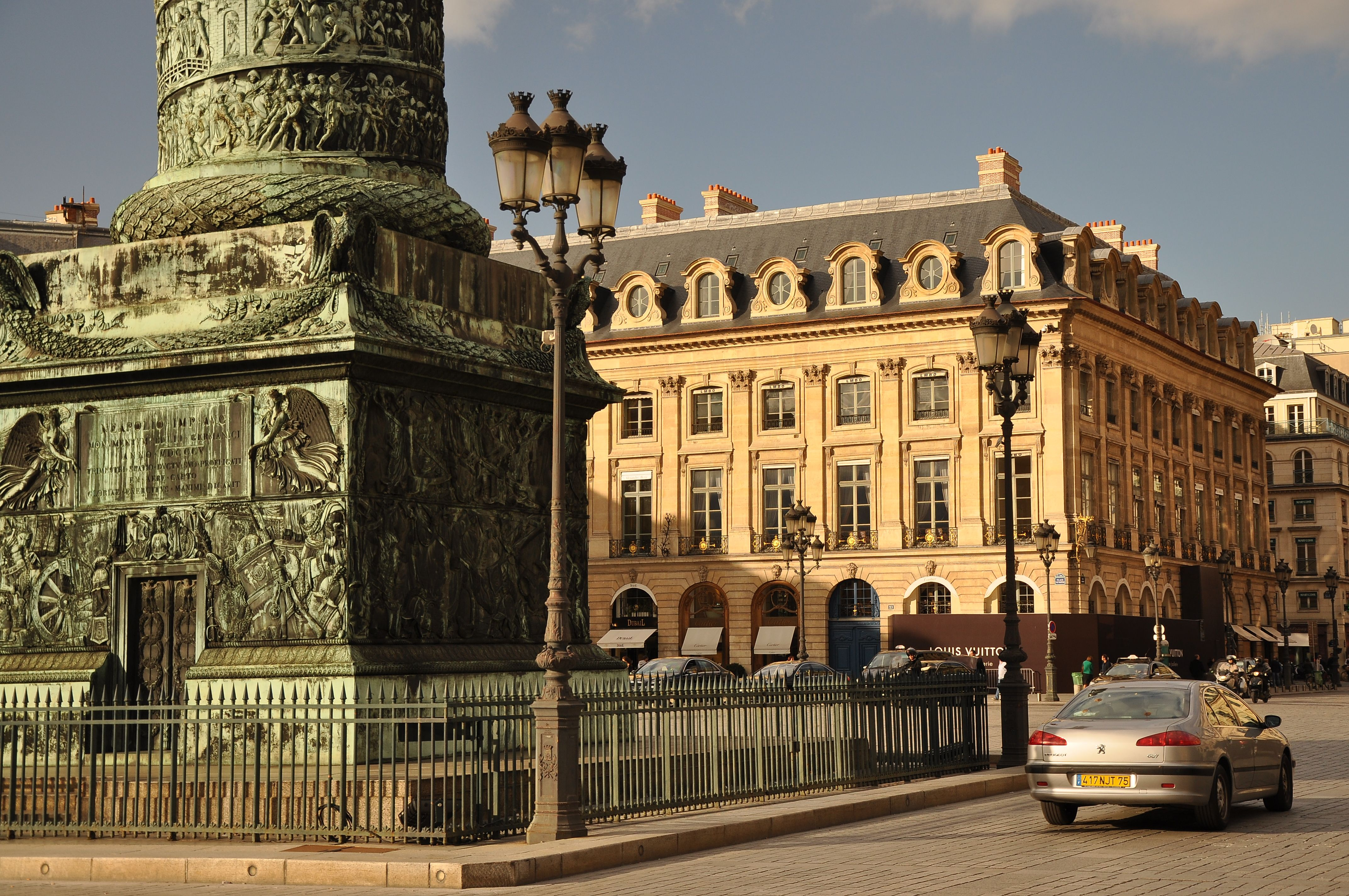 Hôtel de Boullongne at 23 place Vendôme, in the 1st district of Paris France. Built by architect Jacque Gabriel for John Law.